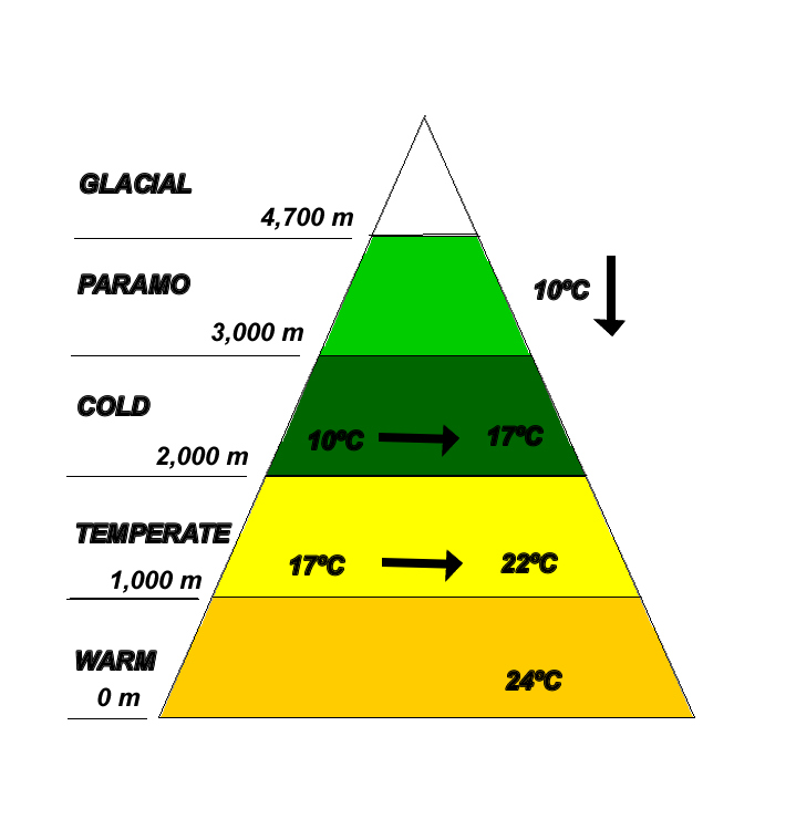 Image depicting the "thermal floors"/Imagen describiendo los "pisos termicos".